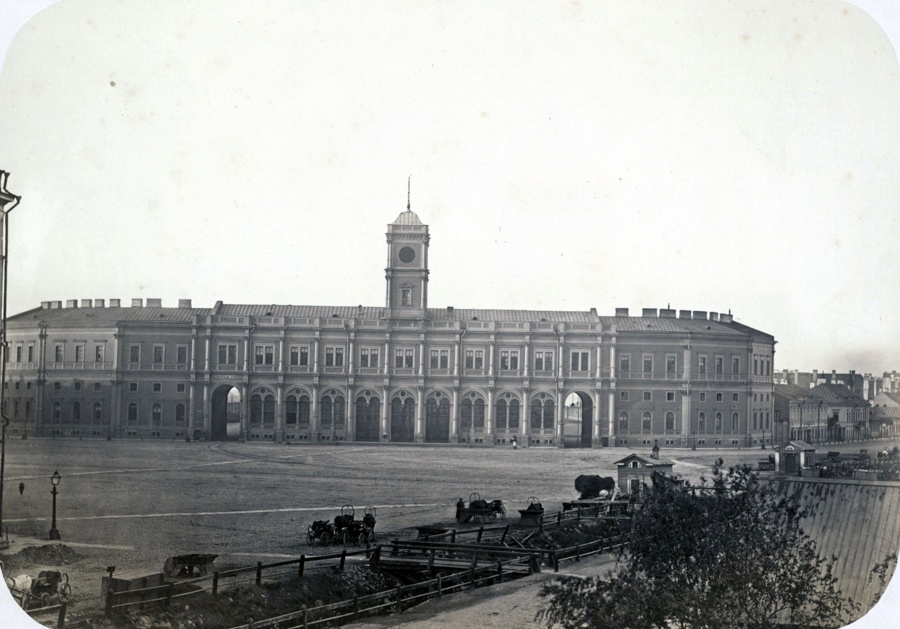 Nikolaevsky rail terminal. Saint Petersburg